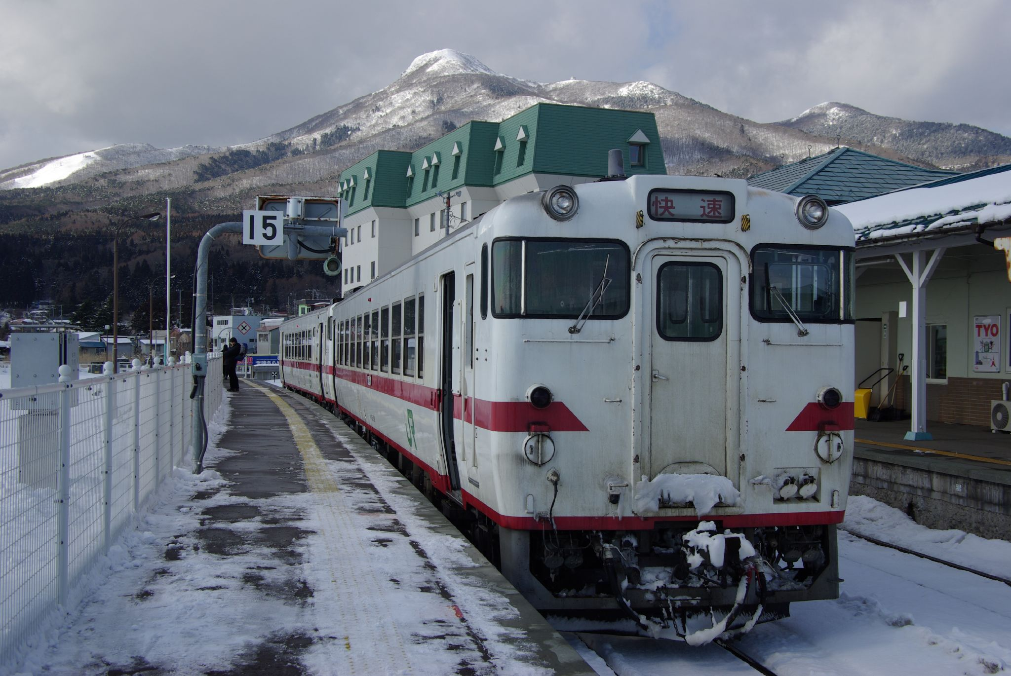 A pair of JR East KiHa 40 series DMU cars at Ominato Station on a Shimokita rapid service to Aomori